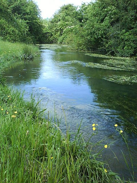 River Dun